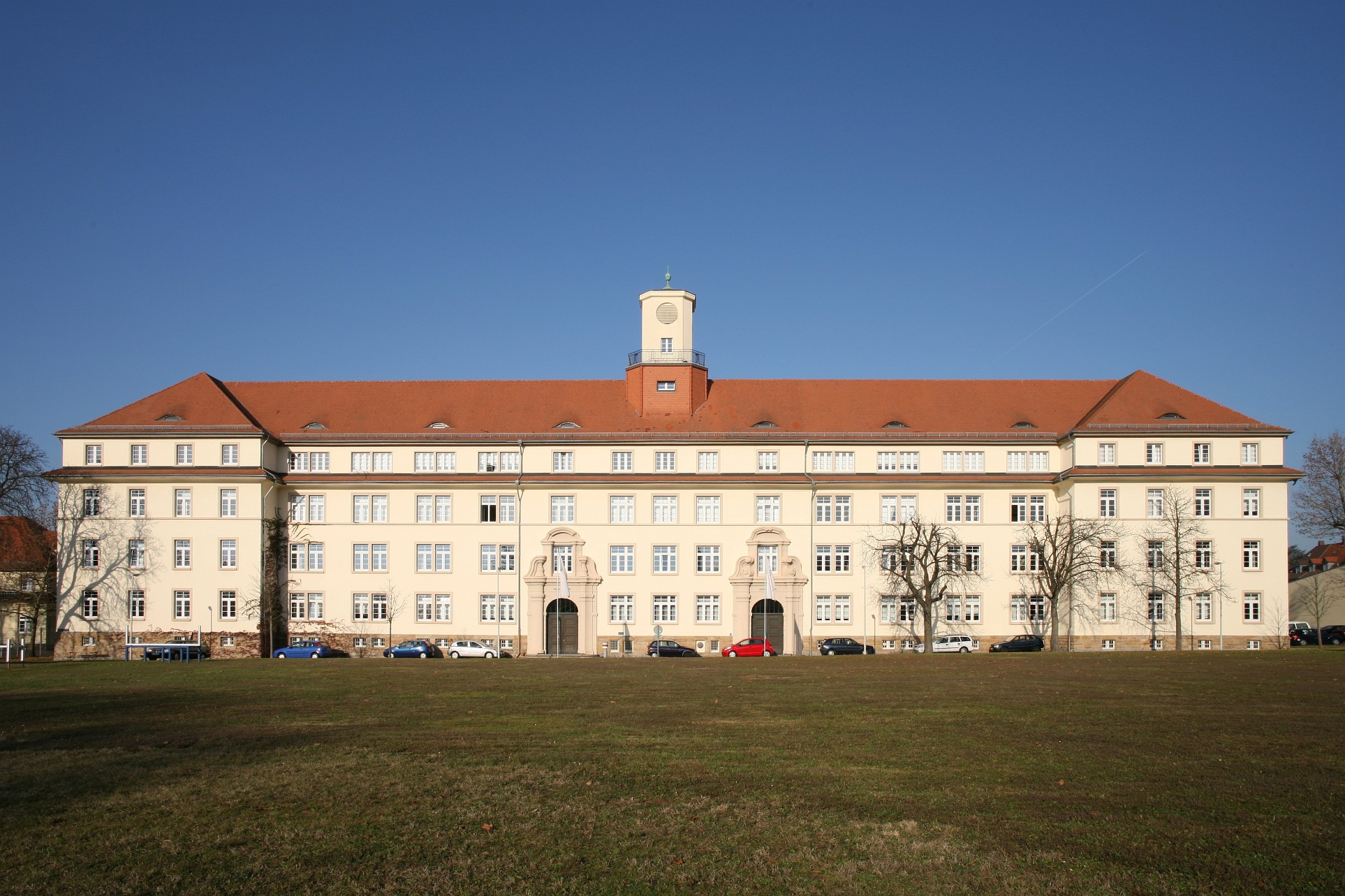 Fraunhofer Institute of Optronics, System Technologies and Image Exploitation (IOSB) in Ettlingen, Germany